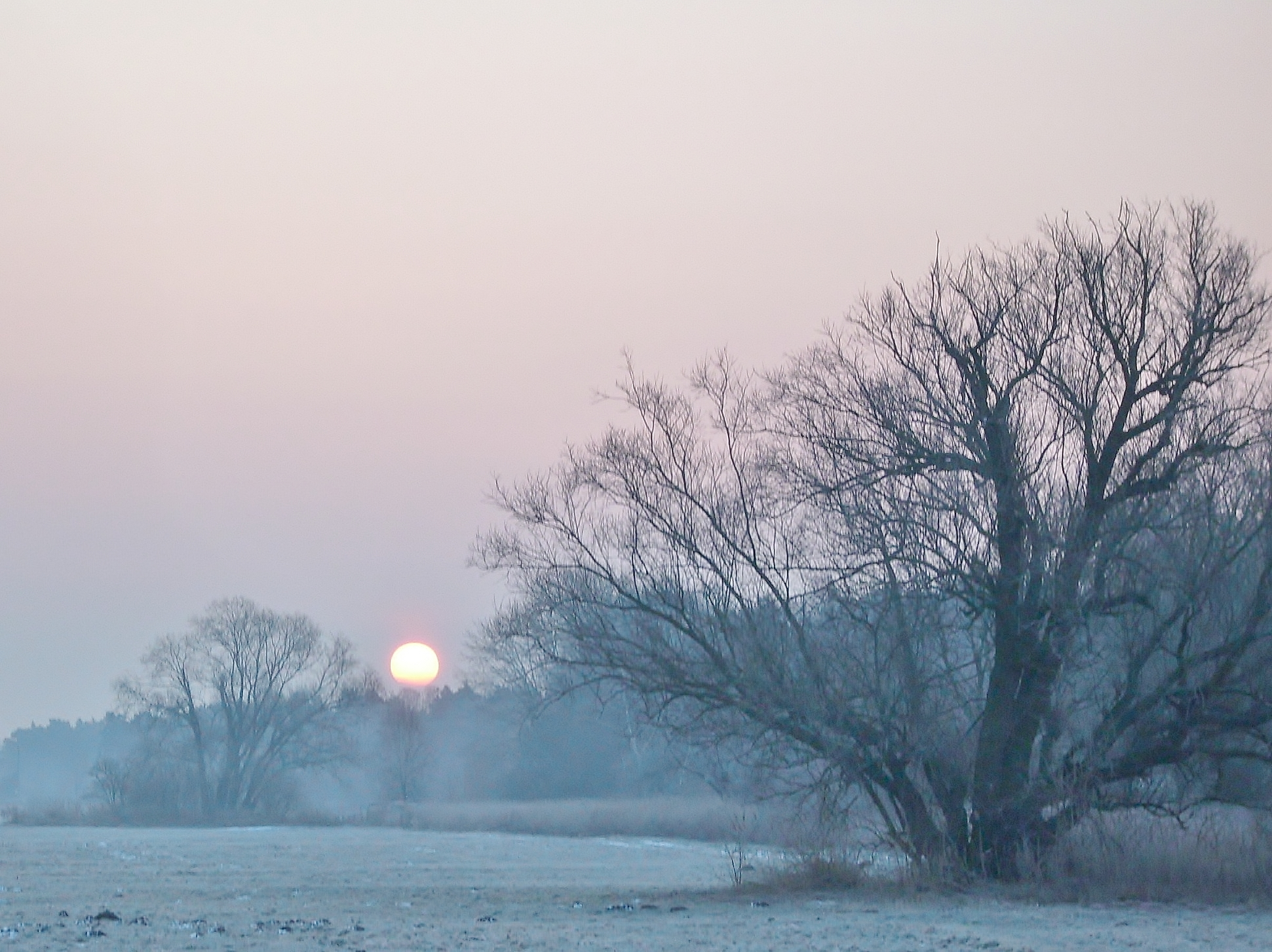 Baruth Glacial Valley in the morning, Baruth/Mark, Landkreis Teltow-Fläming, Brandenburg, Germany